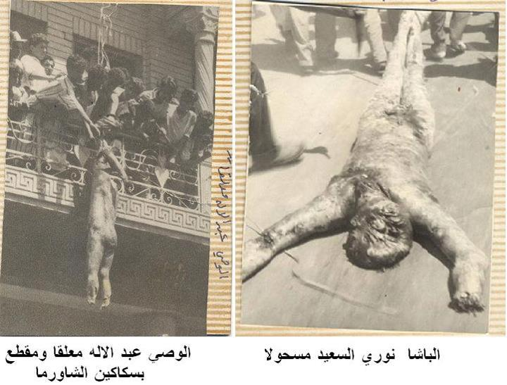 14 July revolution in Iraq - mutilated corpses of Crown Prince Abd al-Ilāh of Hejaz (left) and Prime minister Nuri as-Said (right)